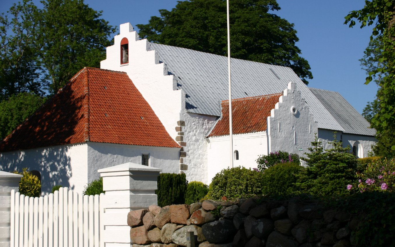 Tved Kirke (Church of Tved, Diocese of Århus, Denmark), southwestern aspect.